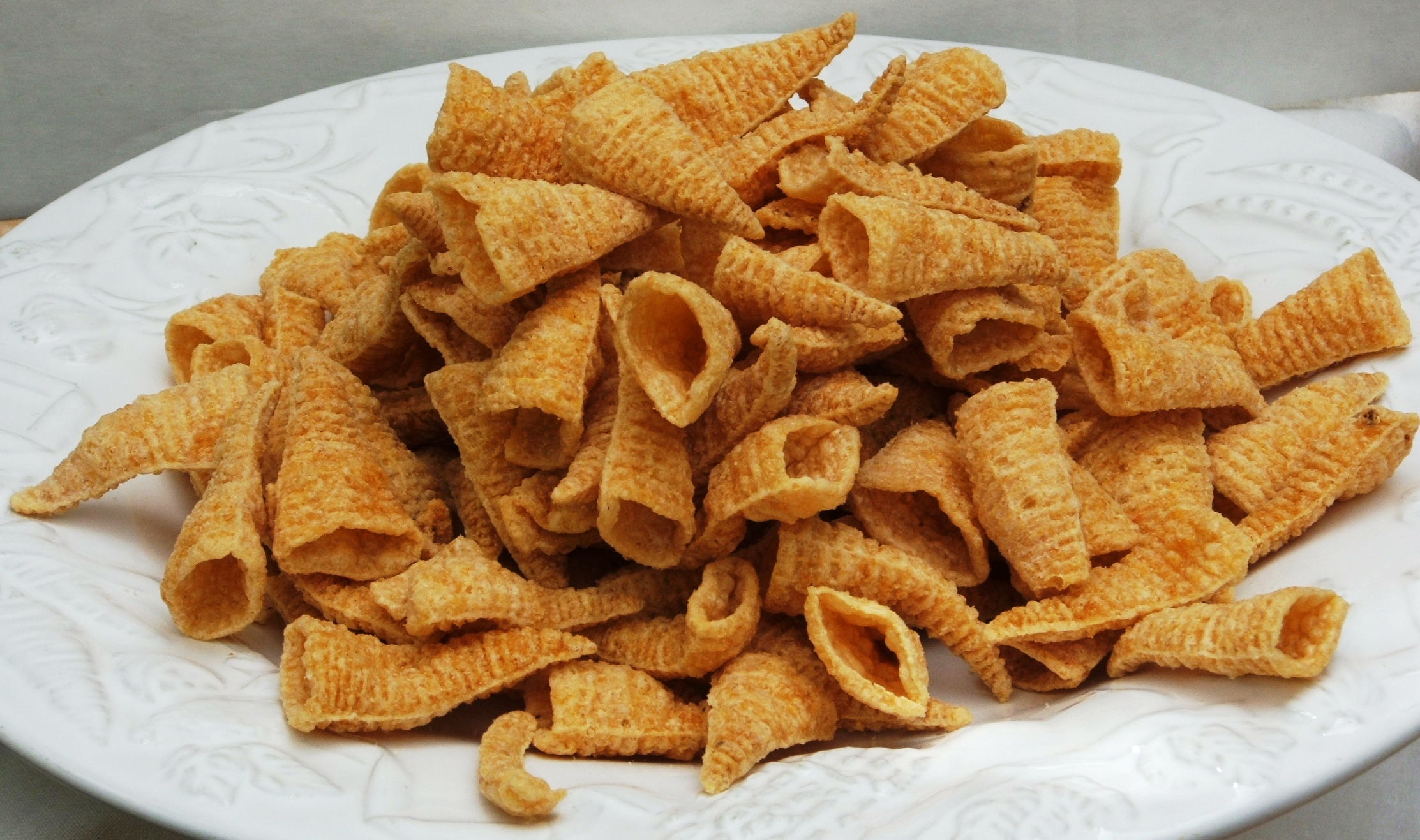 Snack food made from corn formed into hollow, bugle shape and fried